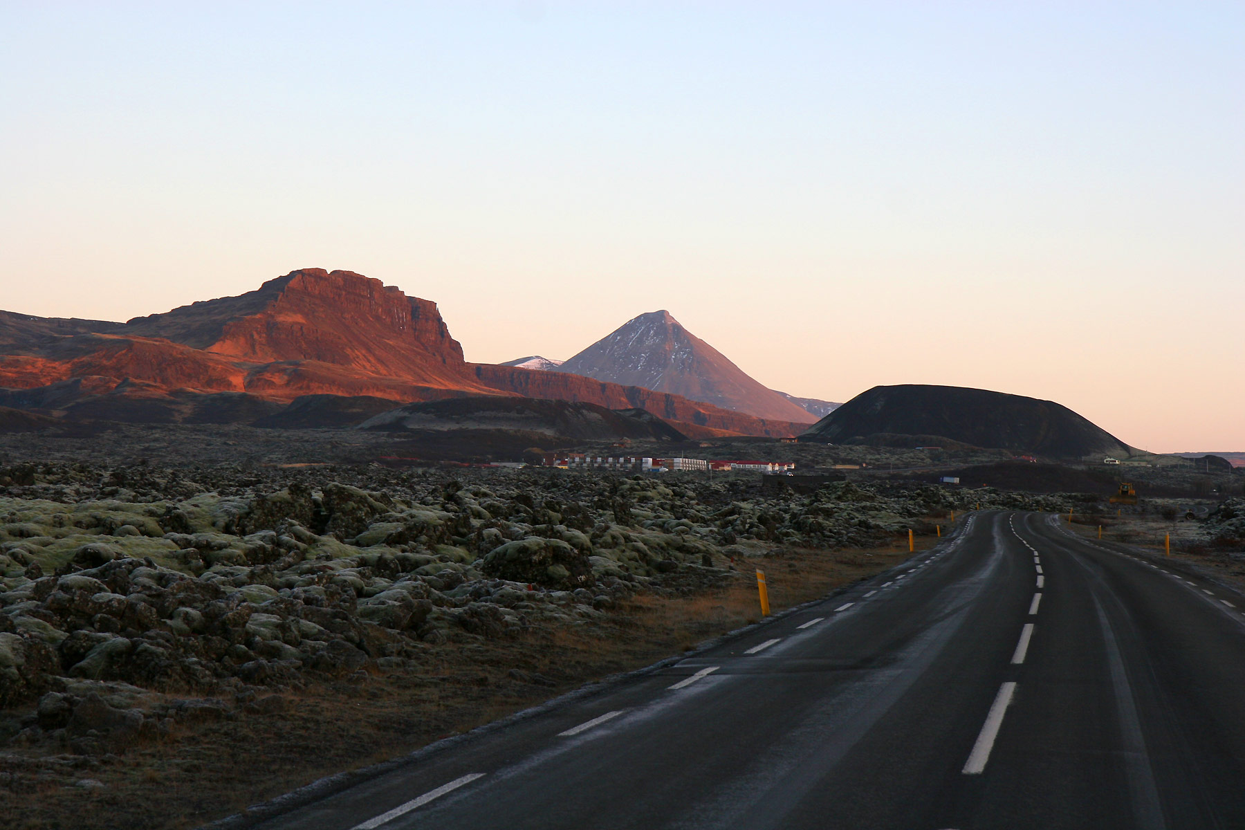 North over Grábrókarhraun toward Baula (934m) and the town of Bifröst, November 21 10:05 Iceland, November 2007 Photo by me user debivort (or friend, with permission given to upload and license freely).